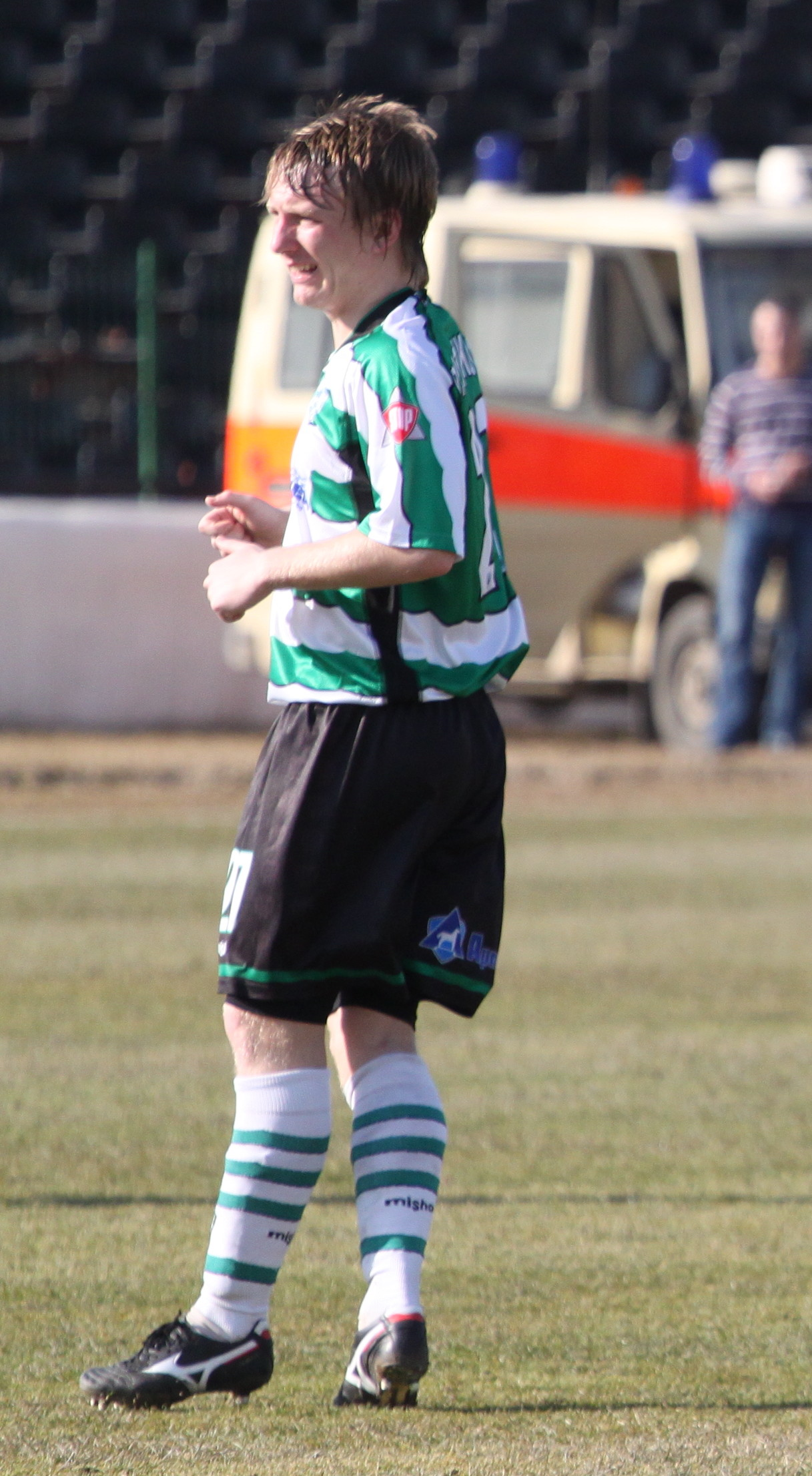 Daniil Ratnikov (born 10 February 1988) is an Estonian professional footballer, who plays in the Bulgarian A PFG, for Cherno More Varna as a attacking midfielder. Ratnikov position is behind the center forward.